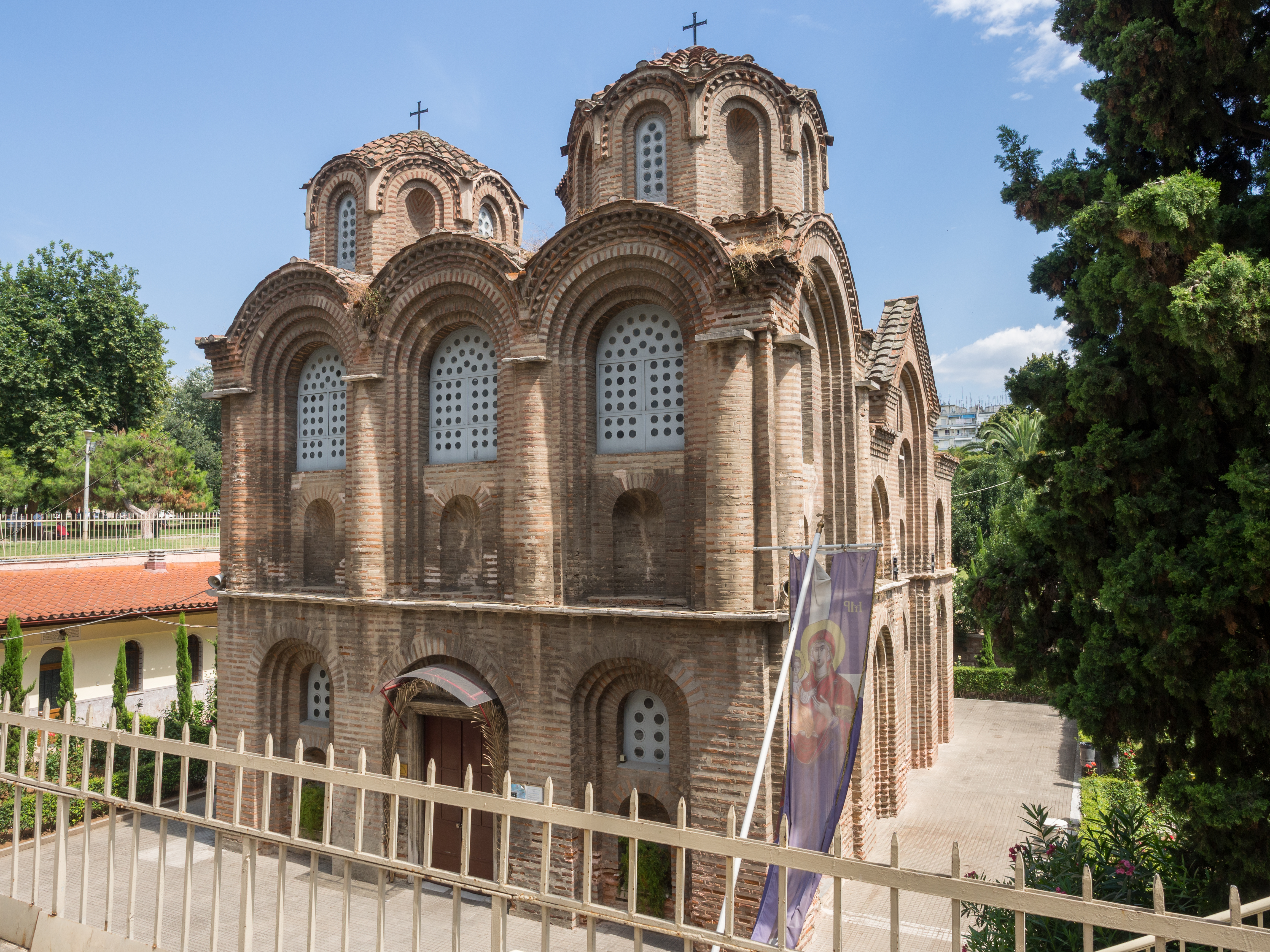 Church of the Panagia Chalkeon in Thessaloniki, seen from W